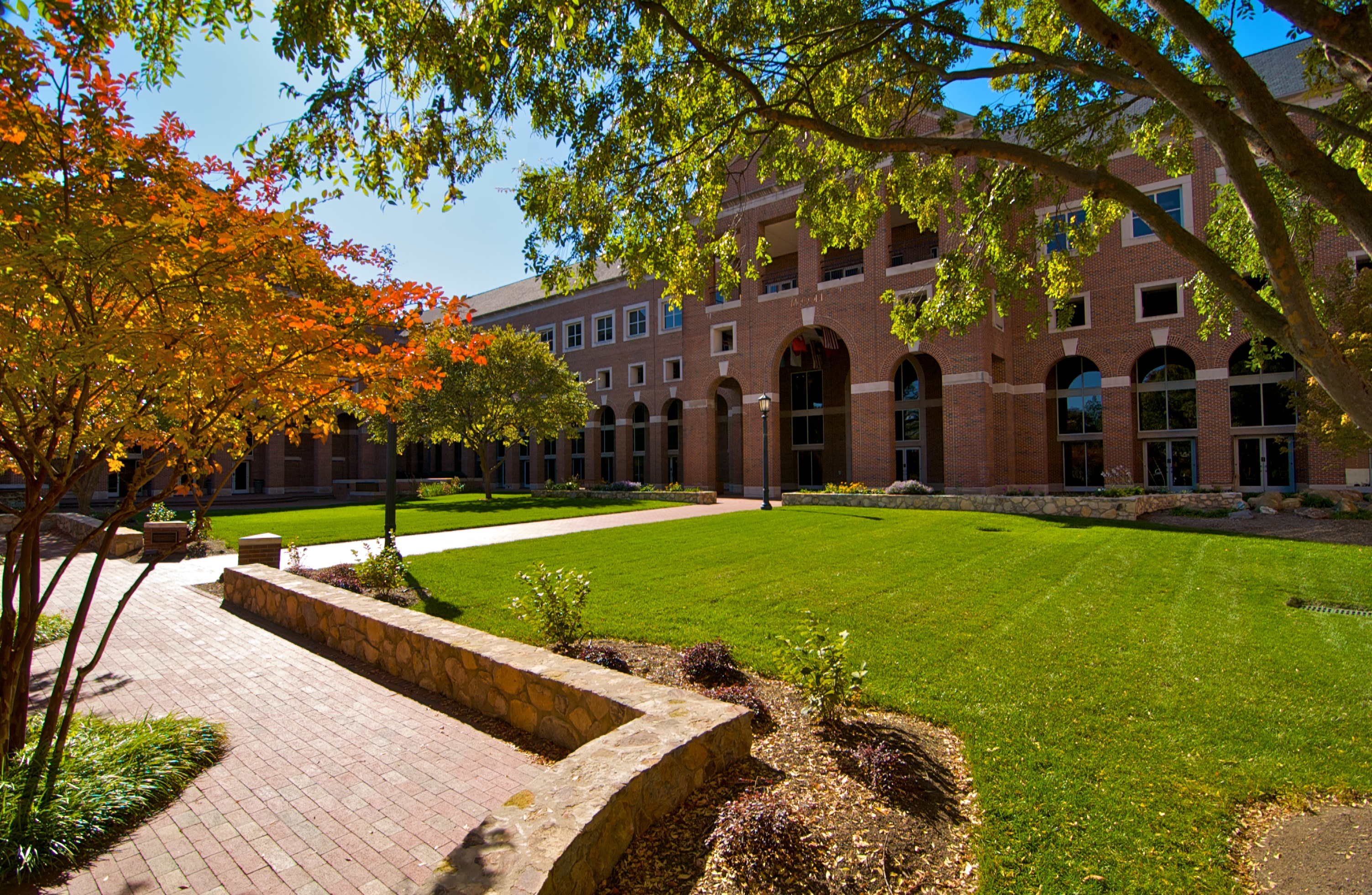 The McColl Building - UNC's Kenan-Flagler Business School